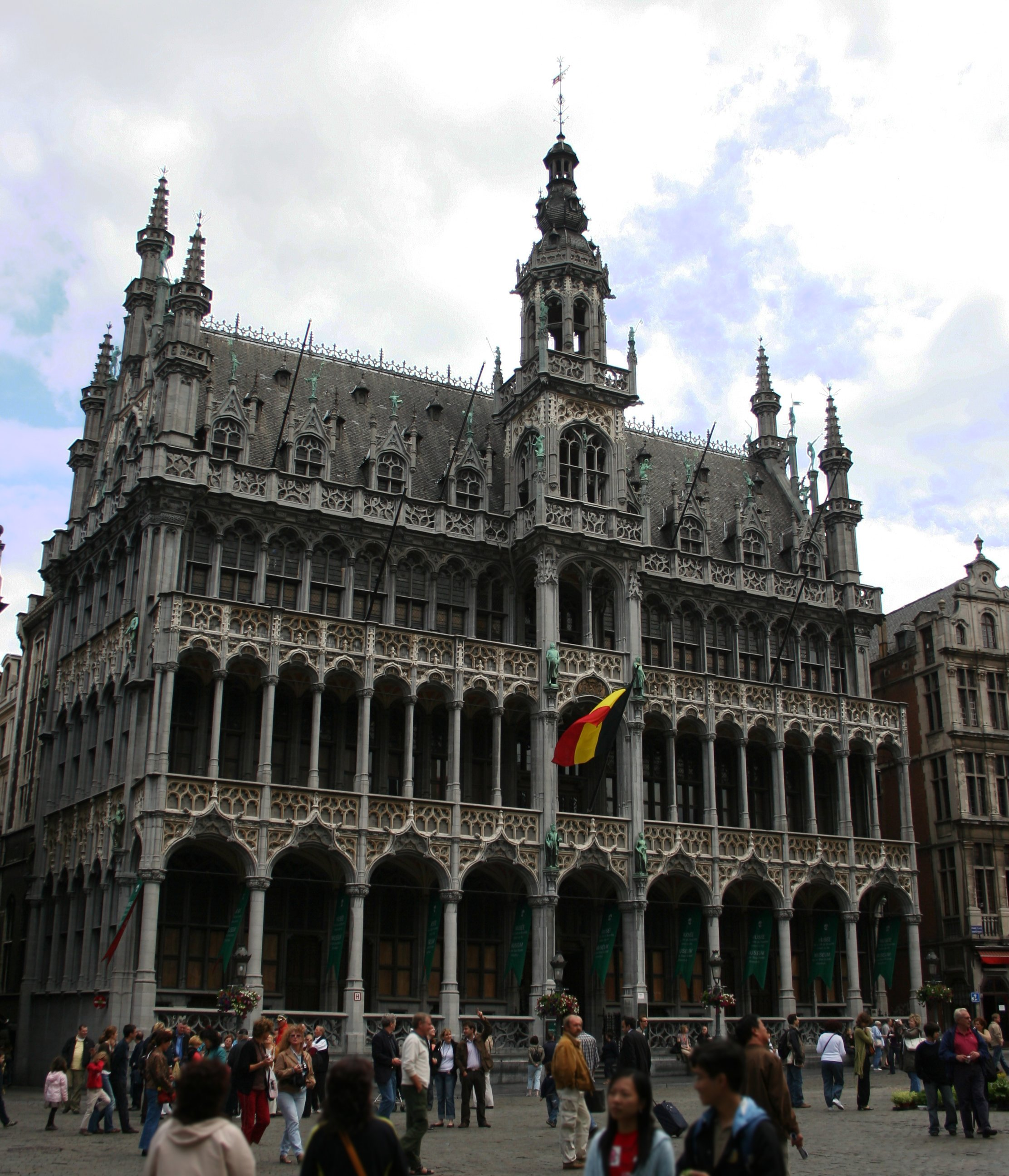 Broodhuis (Breadhouse) on the Grand Place, Brussels, Belgium. Built in the 15th century; rebuilt circa 1873 by architect Victor Jamaer.